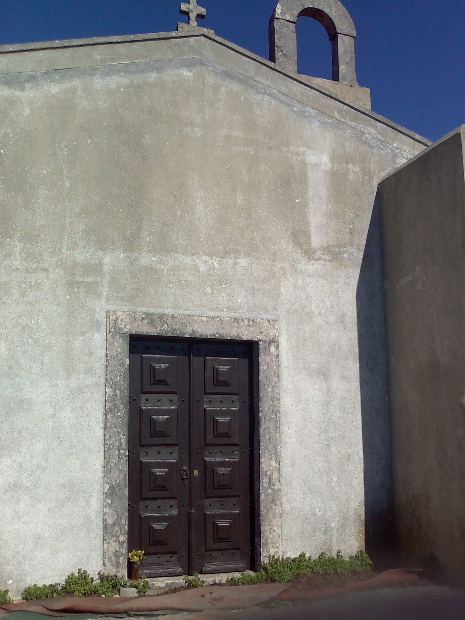 Chapel of Nossa Senhora da Penha (Colares, Sintra, Portugal) - Entrance door